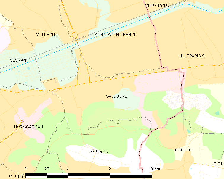 Map of French municipality Vaujours